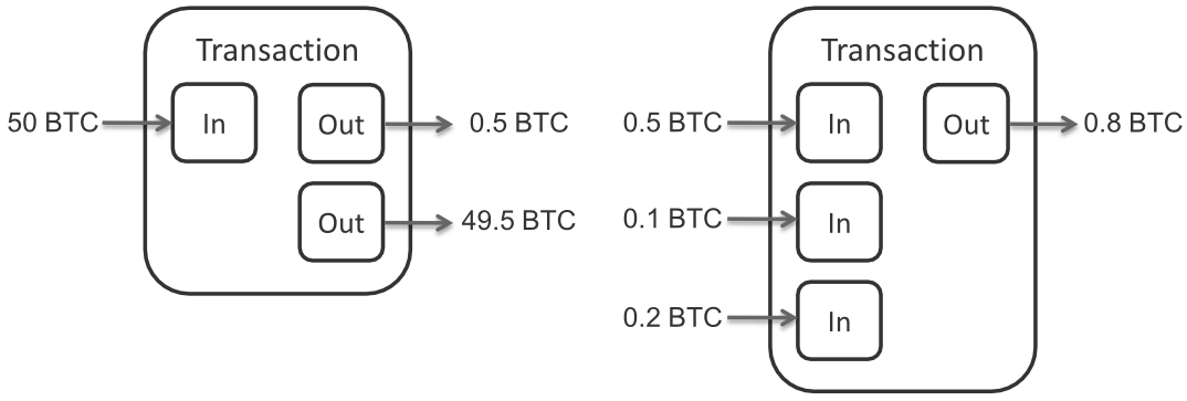 Two example Bitcoin transactions with multiple inputs and outputs. Transaction fees are not considered in these two examples.